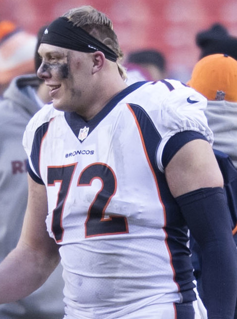 Broncos at Redskins 12/24/17